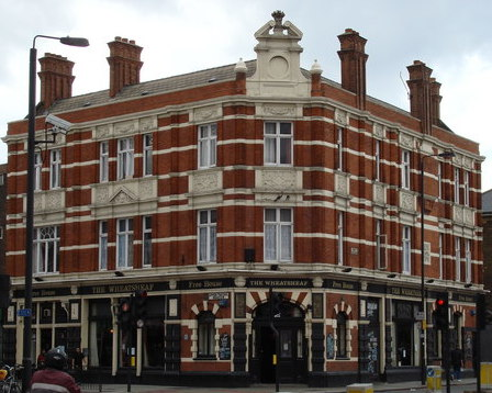 The Wheatsheaf, 2 Upper Tooting Road, London